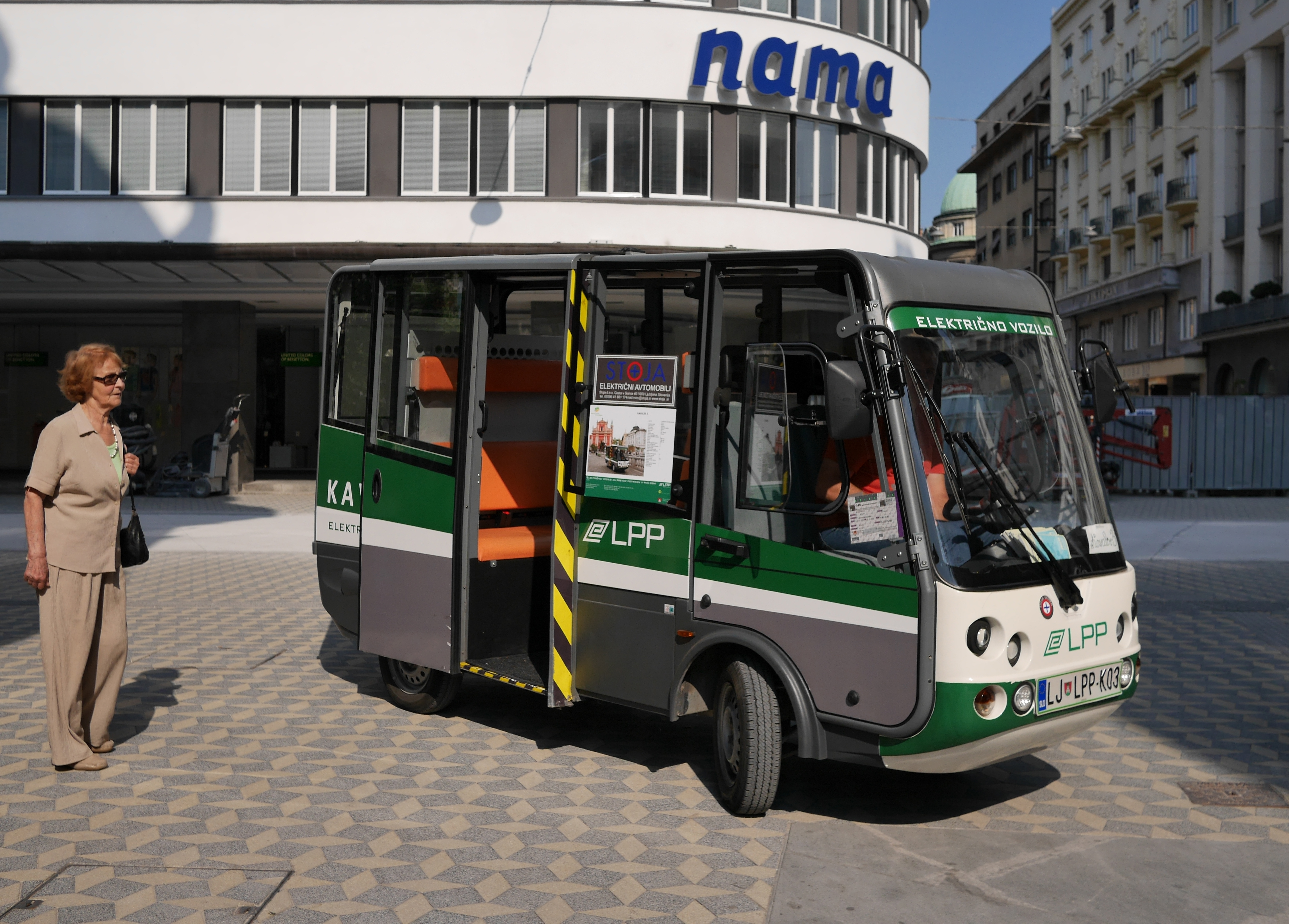 Electric vehicle for elderly which is operating for free in city center of Ljubljana, Slovenia.